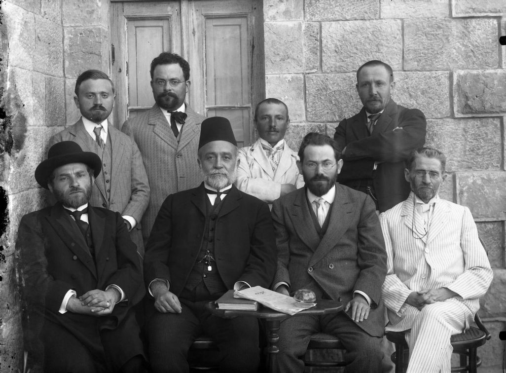 The First Committee of the Hebrew Language, Jerusalem 1912. Sitting (R-L): Eliezer Ben-Yehuda, Joseph Klausner, David Yellin, Eliezer Meir Lifshitz; Standing: Chaim Aryeh Zuta, Kadish Yehuda Silman, Abraham Zevi Idelsohn, Abraham Jacob Brawer.